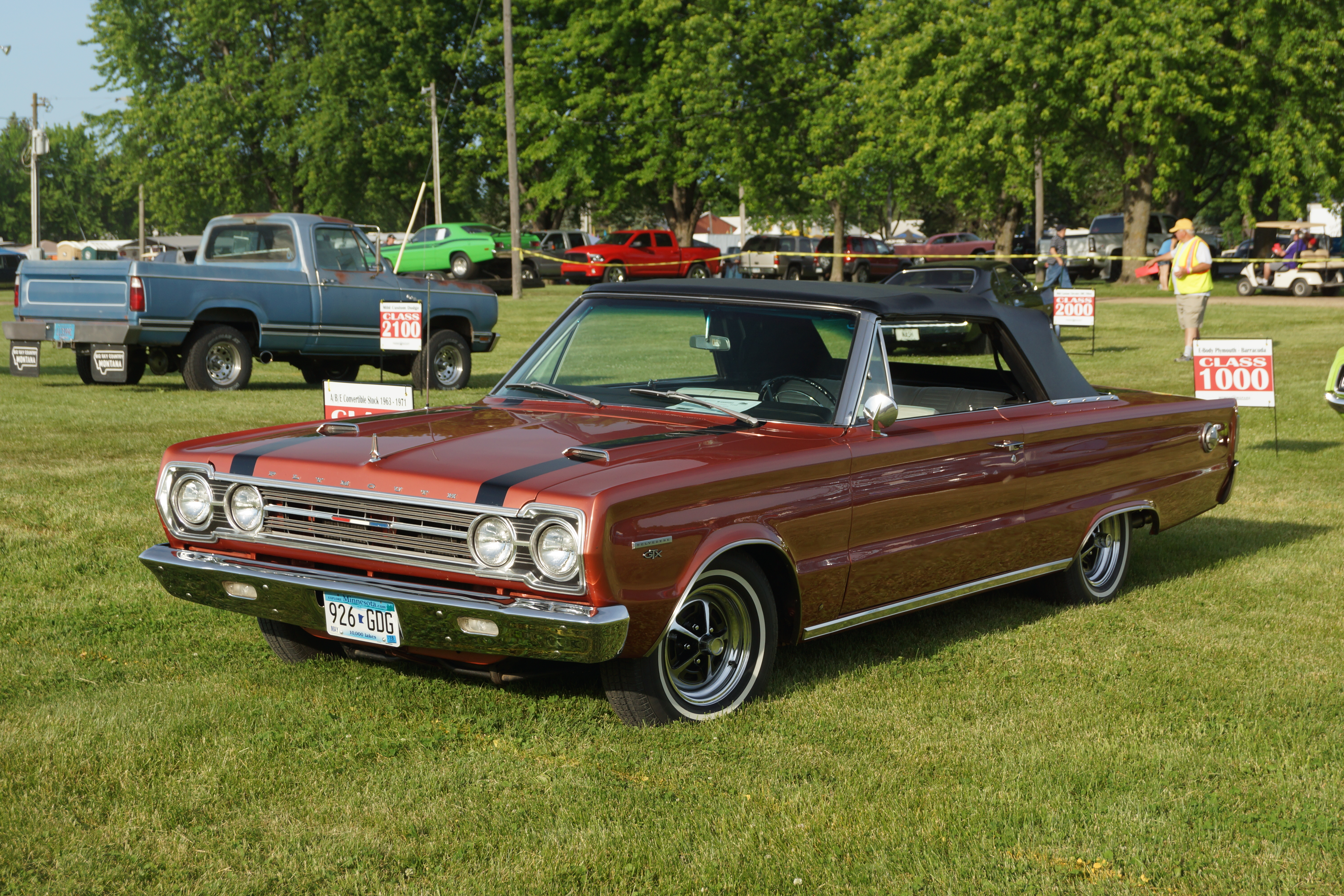 Midwest Mopars in the Park National Car Show & Swap Meet Dakota County Fairgrounds Farmington, Minntesota June 2-4, 2017 ******** Click here for more car pictures at my Flickr site. Or here for my Car Crazy Tumblr site. Or on Twitter @DVS1mn.